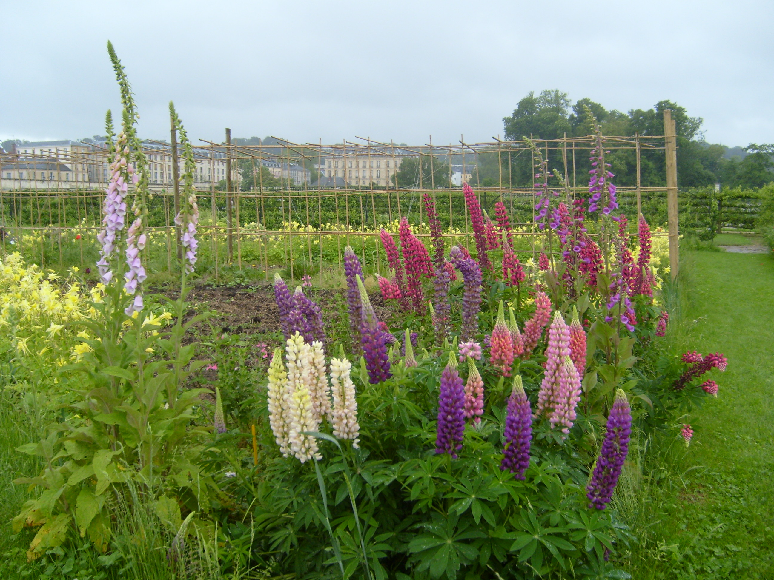 Flowerbeds in the Potager du roi, Versailles